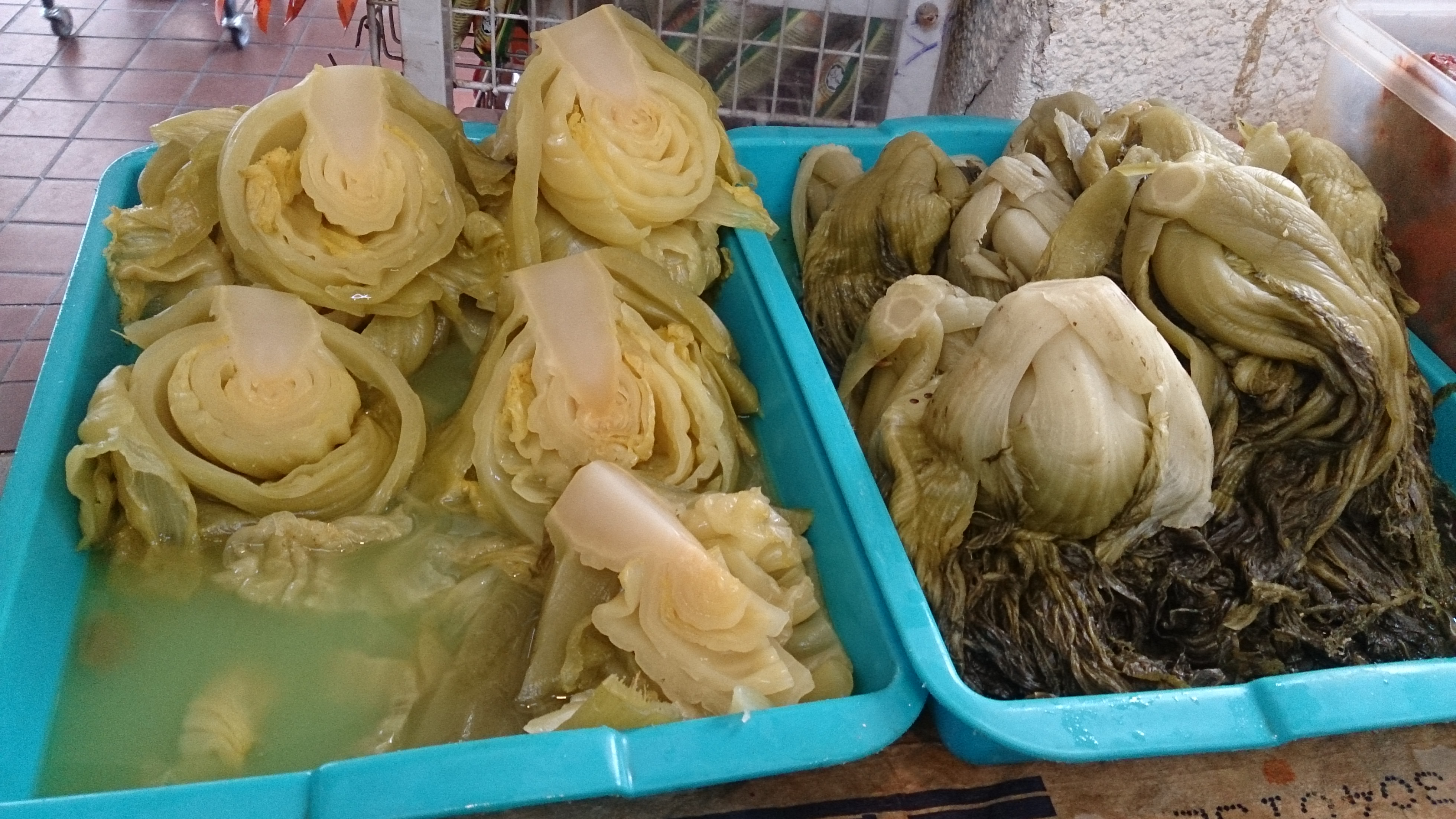 Sold at a market in Singapore. Good for eating with plain porridge.